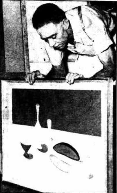 Text accompanying the picture: Many paintings have passed through the hands of art gallery attendant W. Meikle, but there were a few surprises for him today as he helped unpack the French Exhibition for the opening at 3 pm on Friday.